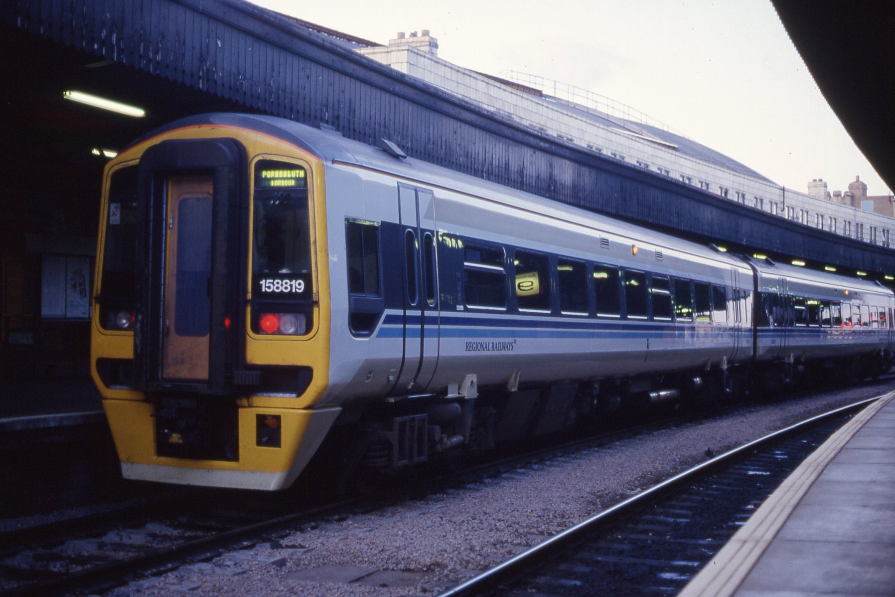 Class 158 DMU 158819 to Portsmouth, Bristol Temple Meads 27.2.1993. Scanned from slide.